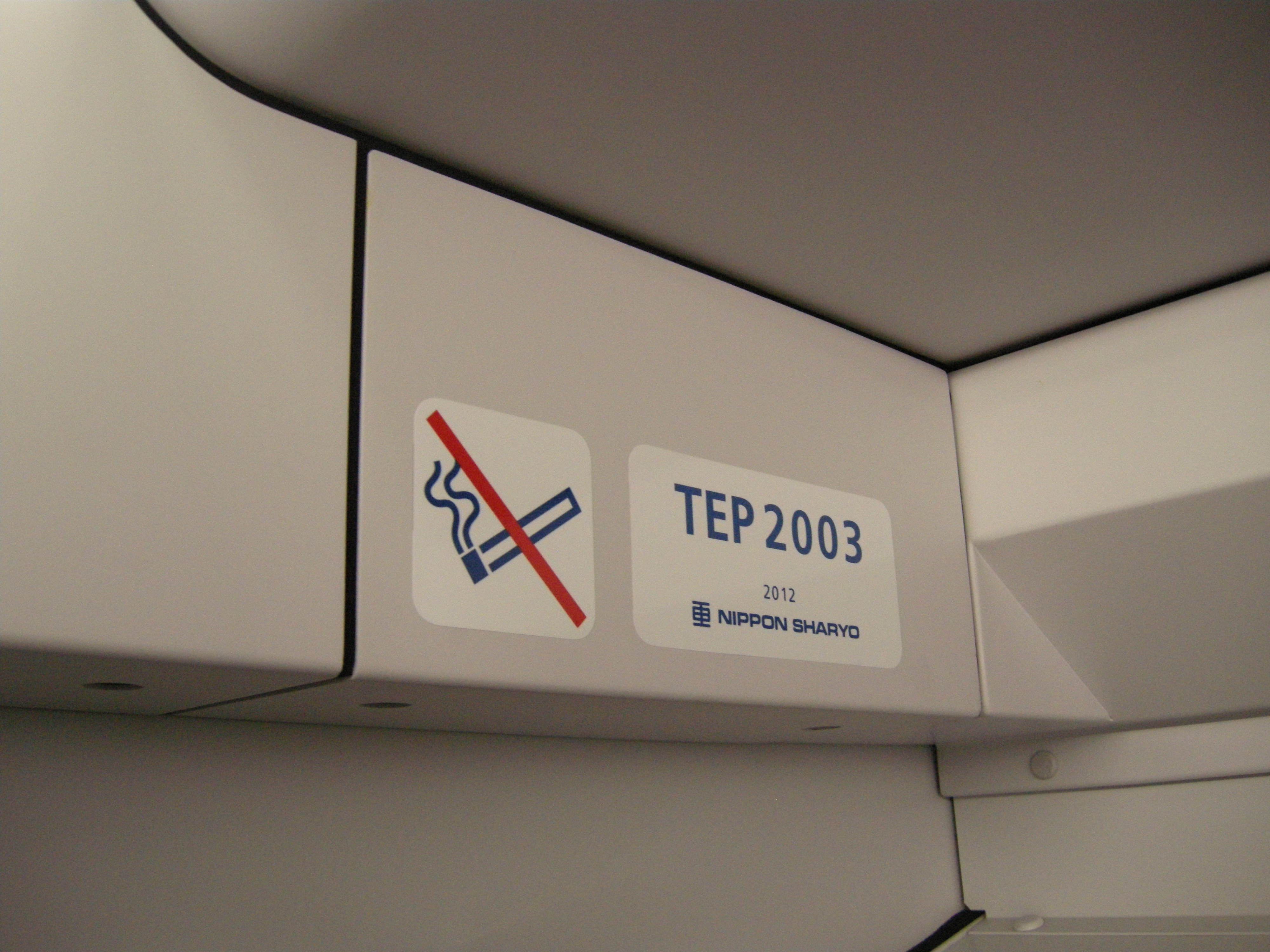 No-smoking sign and Nippon Sharyo tag in TRA TEP2003.